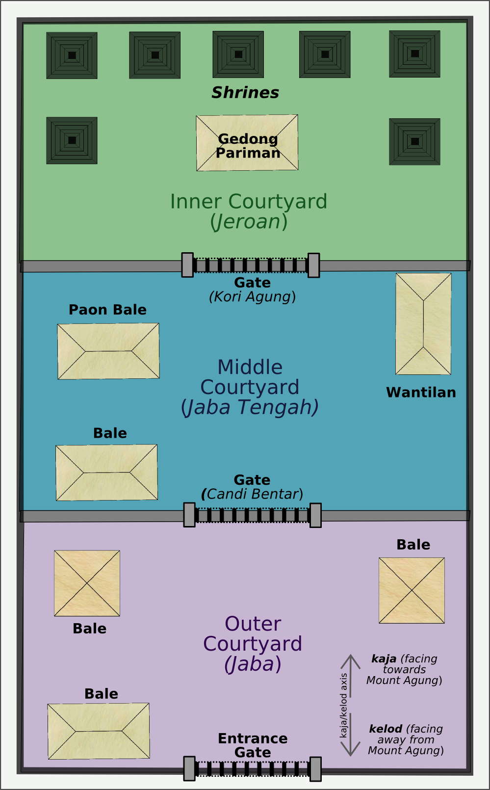 Example layout plan of a Balinese temple, Bali.